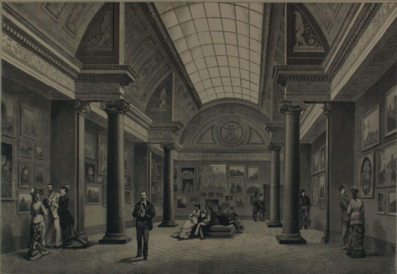 Moltke's Painting Collection in Copenahgen, Denmark